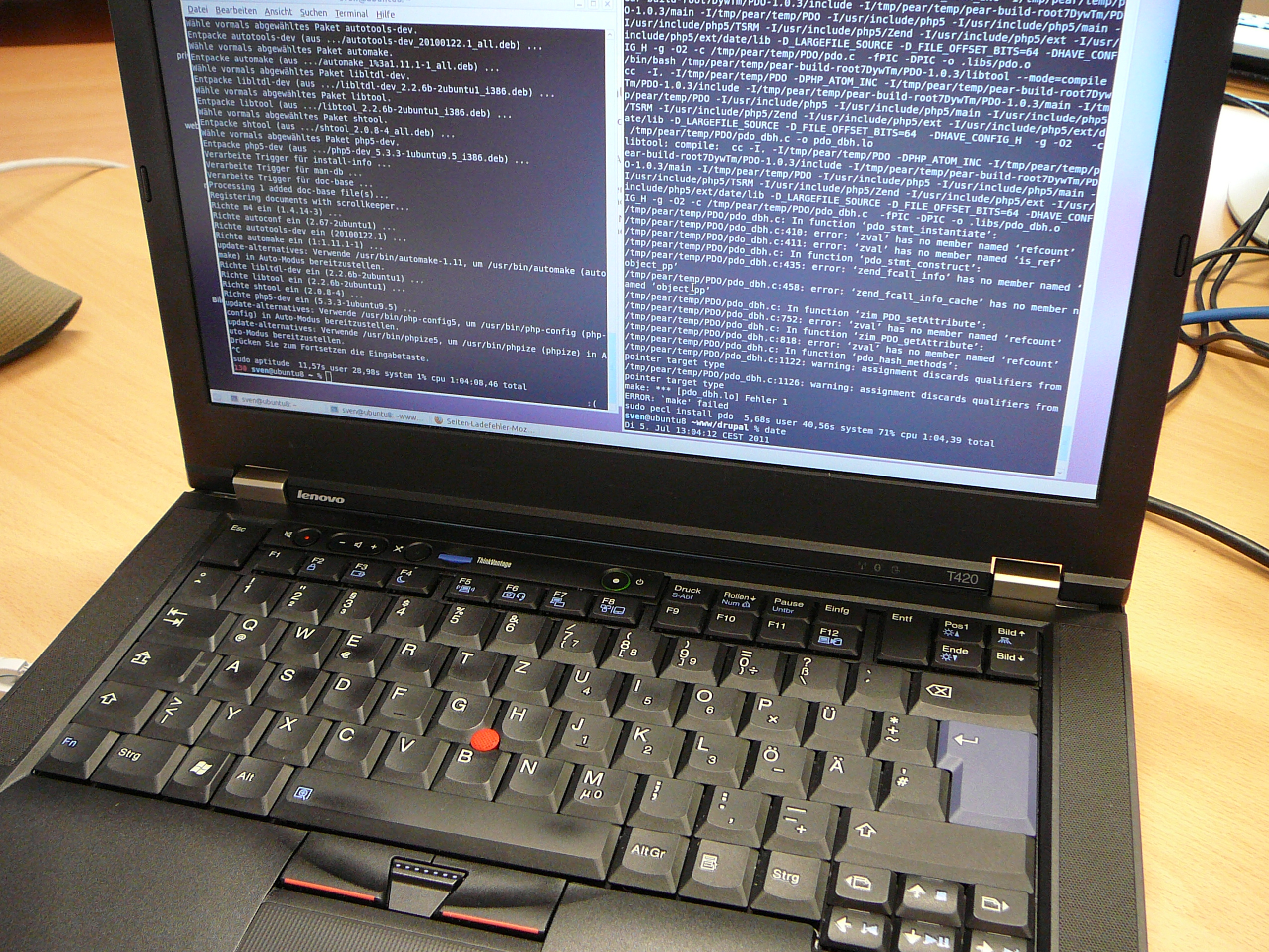 Lenovo ThinkPad T420 running Ubuntu Linux.